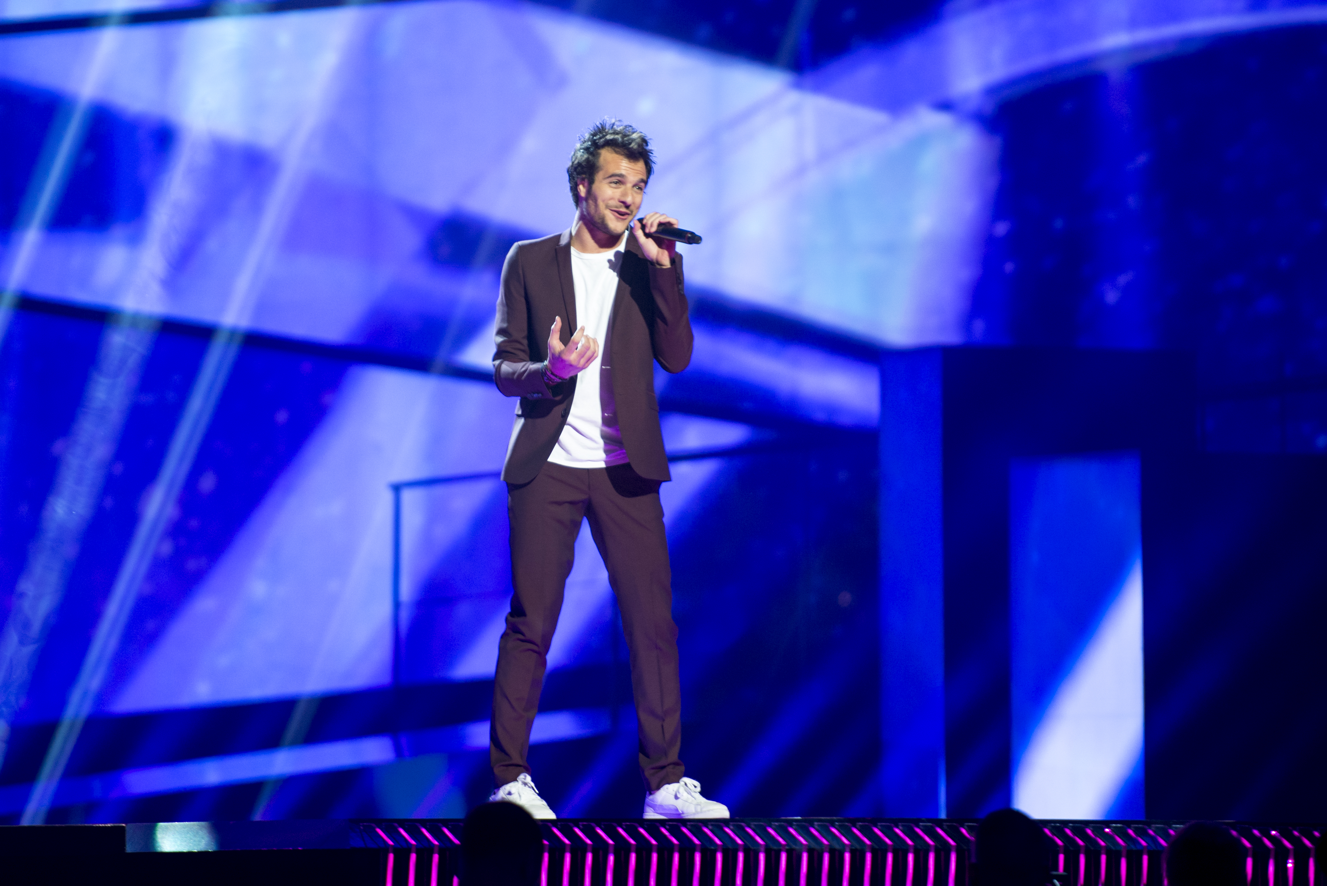 Amir representing France with the song "J'ai cherché" during the first dress rehearsal of the final of the Eurovision Song Contest 2016 in Stockholm. (Help translate this text)